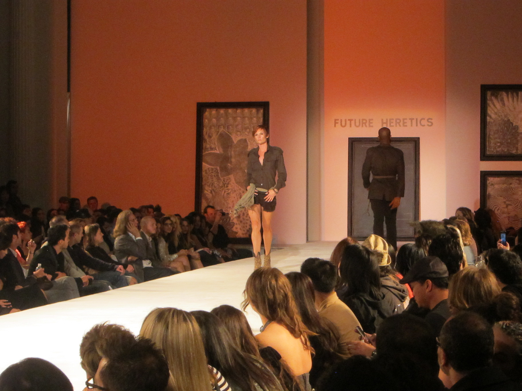 Future heretics model, Jolene Andersen. Fashion Week 2011